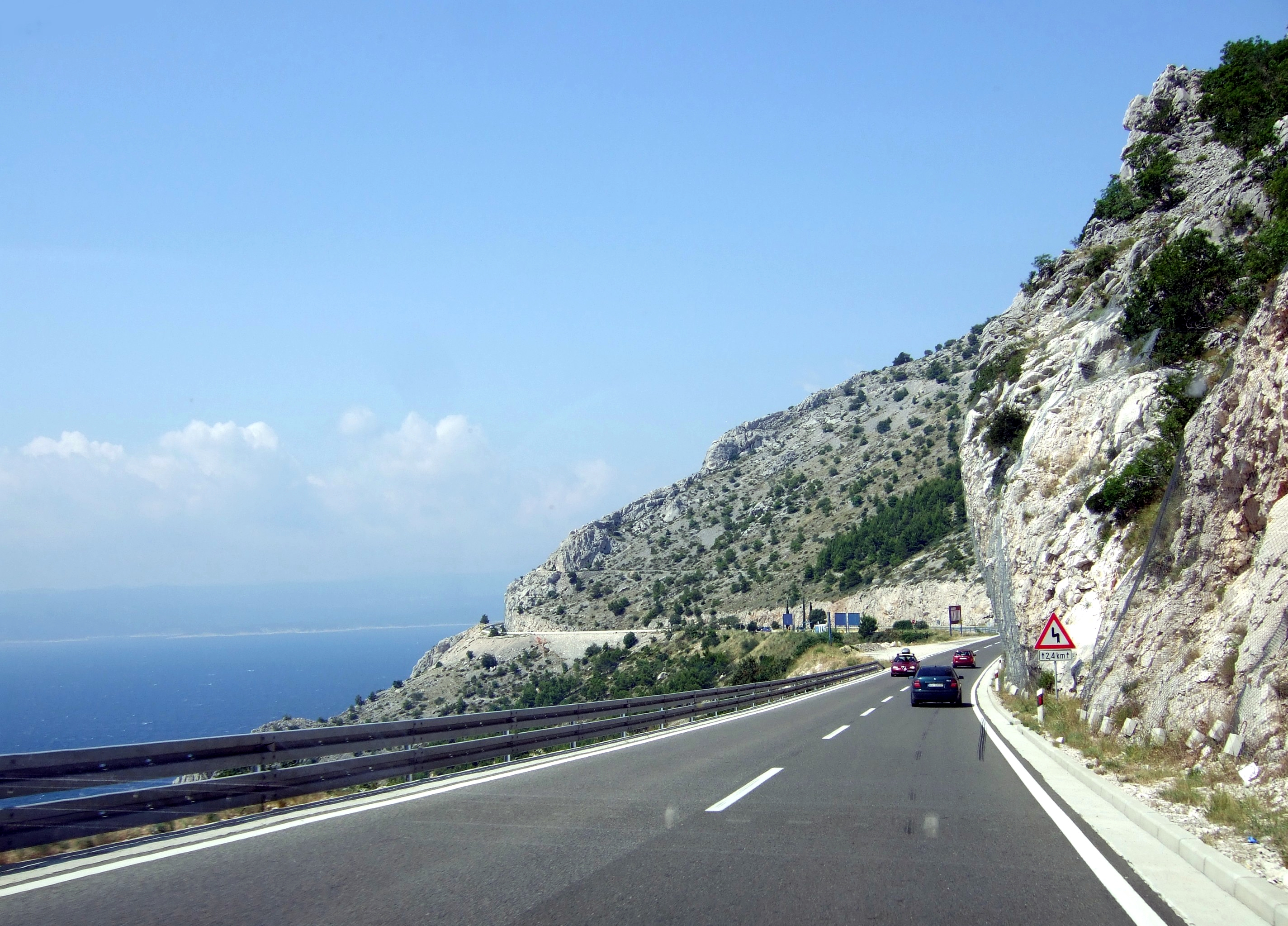 Road E65 (D8) in Croatia between Makarska and Omis.